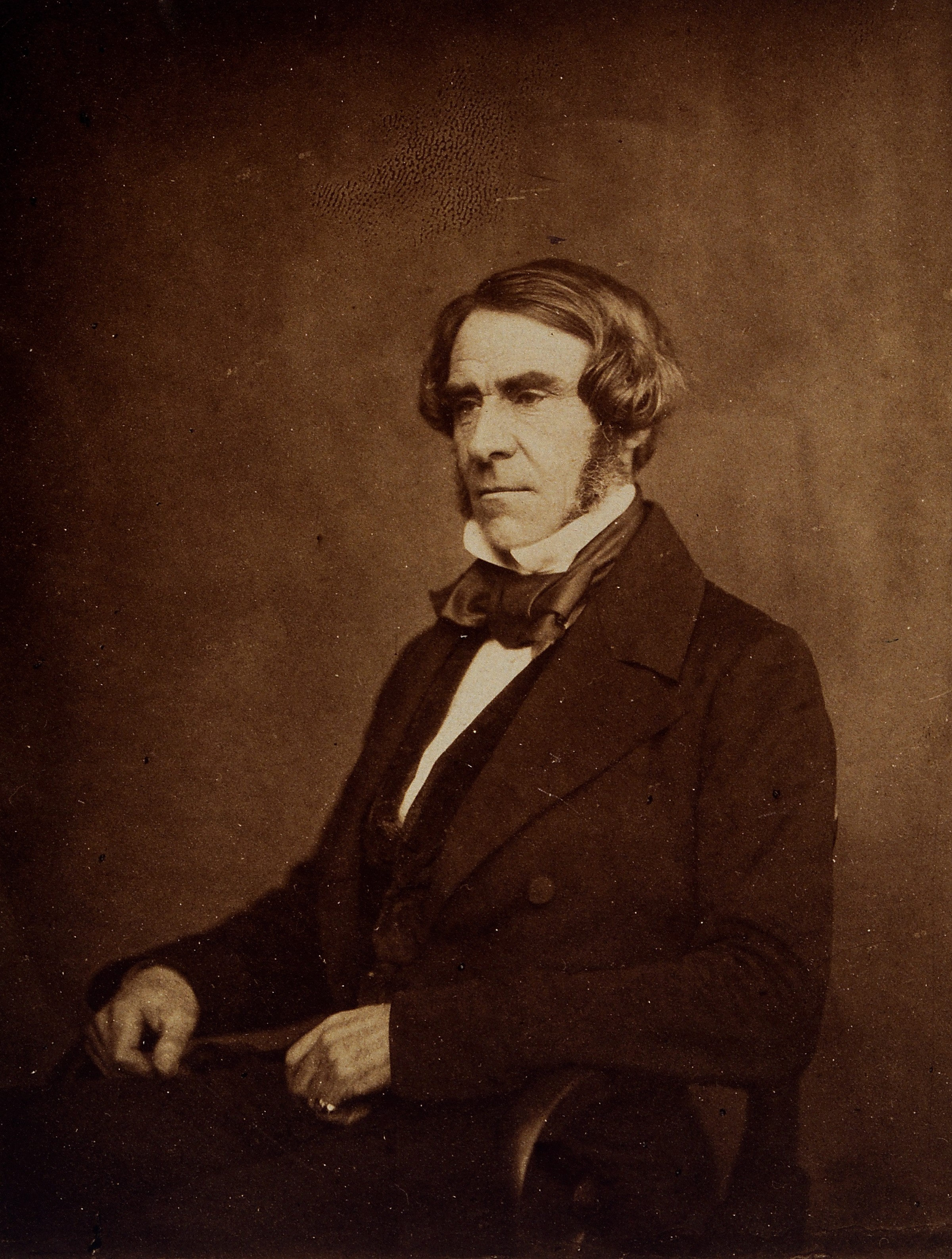 Sir Robert Christison. Photograph. Iconographic Collections Keywords: portrait photographs